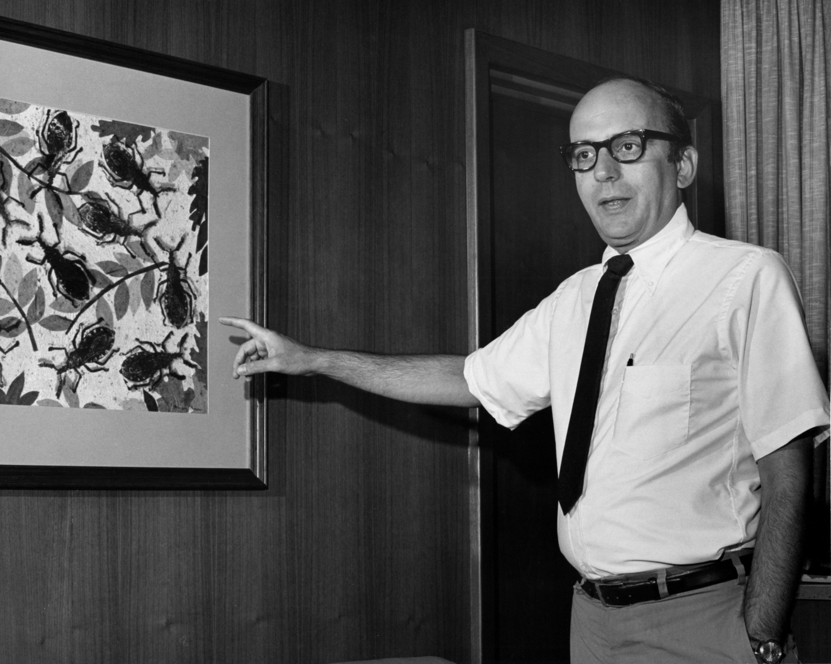 This historic photograph showed the former Centers for Disease Control (CDC) Director, David J. Sencer, M.D., M.P.H., during his Directorship, in his office as he was pointing to a piece of artwork depicting what appear to be Triatomine sp., or "kissing bugs", which are known to transmit "Chagas disease". Dr. Sencer held the CDC Director’s position from 1966 until 1977. Also called "American trypanosomiasis" (tri-PAN-o-so-MY-a-sis), Chagas disease is an infection caused by the parasite Trypanosoma cruzi. Worldwide, it is estimated that 16 to 18 million people are infected with Chagas disease; of those infected, 50,000 will die each year.